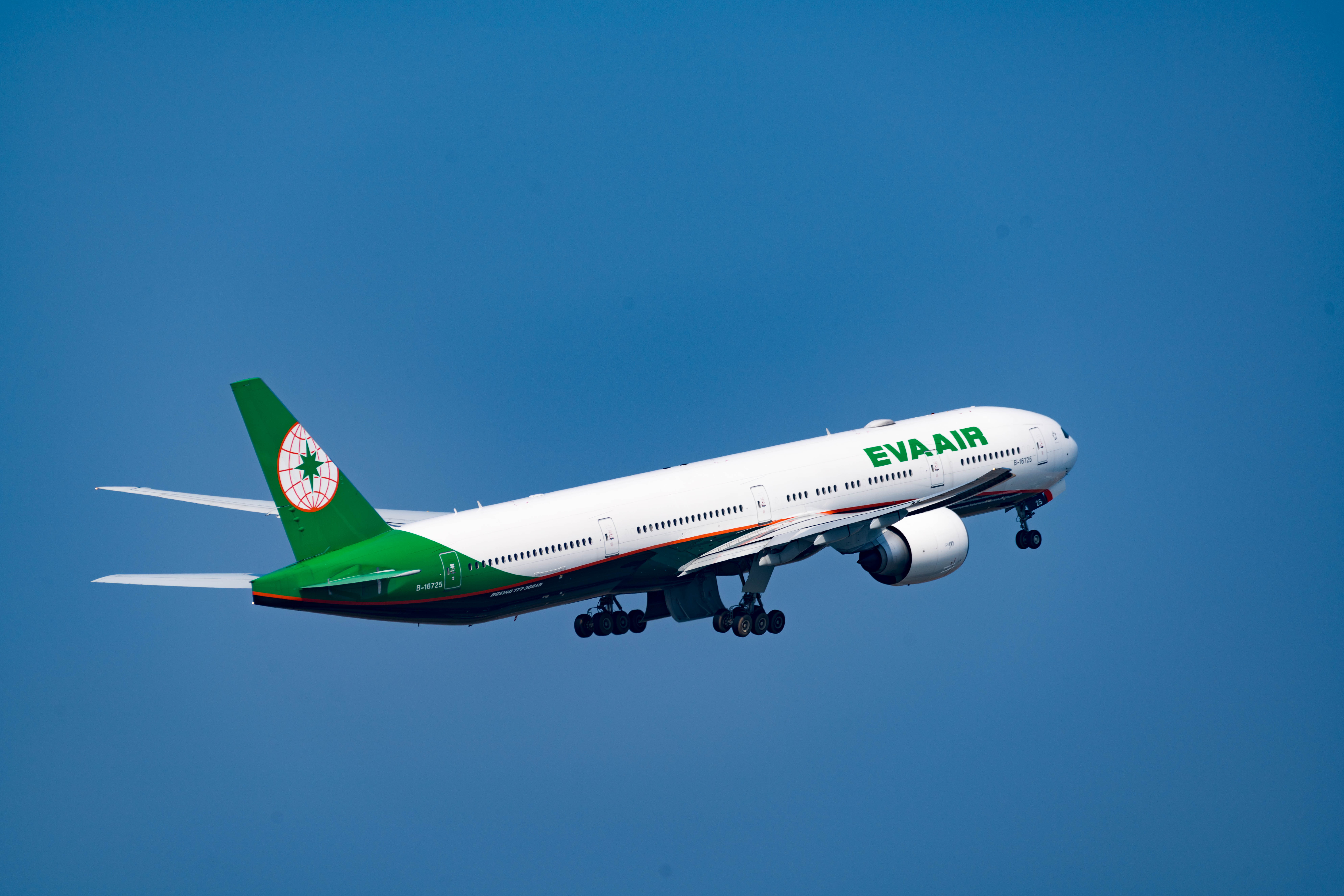 EVA Air Boeing 777 at Kansai International Airport